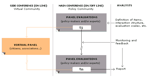 Hyperdelphi communication structure (after Maurizio Bolognini, Democrazia elettronica, 2001)